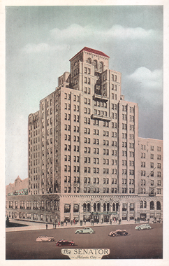 The Senator hotel in Atlantic City, NJ circa late 1930s as represented in a promotional postcard of the era. Post WWII the hotel would feature a distinctive rooftop "Sky Cabana" sign.